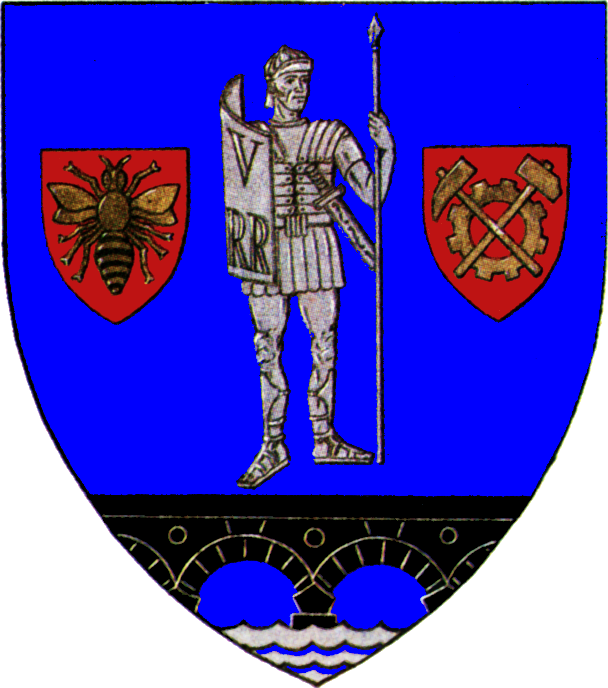 Coat of arms of Caraș-Severin County, Romania.